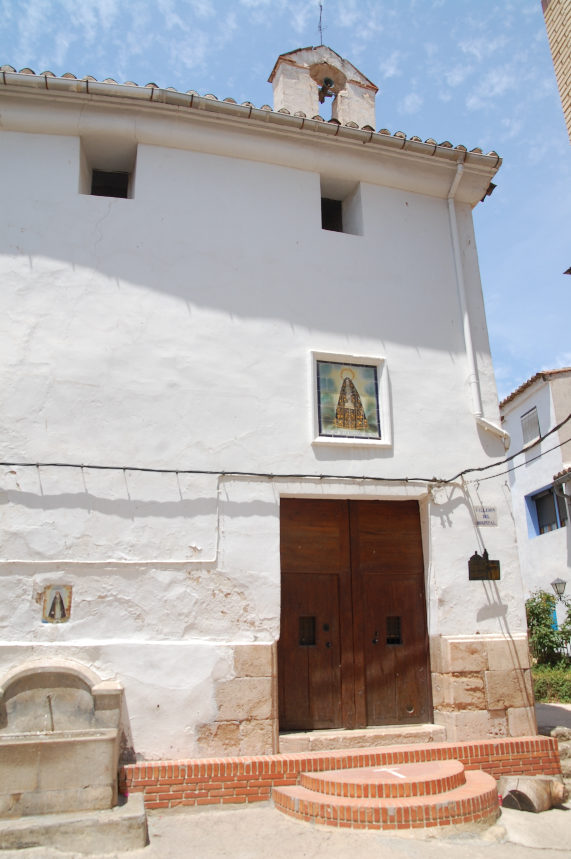 The Solitude church